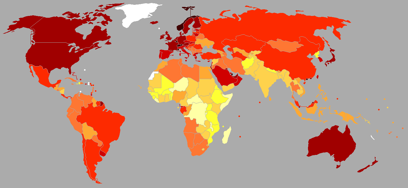 GDP per capita 2015 over $64,000 $32,000–64,000 $16,000–32,000 $8,000–16,000 $4,000–8,000 $2,000–4,000 $1,000–2,000 $500–1,000 below $500 unavailable